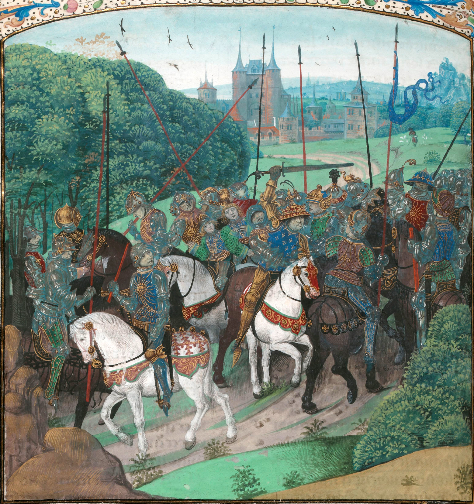 Madness of Charles VI: crossing the forest of Le Mans on an expedition against Pierre de Craon, the king, brandishing a sword, mistakes the members of his retinue for enemies and attacks them. (BNF, FR 2646) Jean Froissart, Chronicles fol. 153v Flandres, Bruges 15th Century.